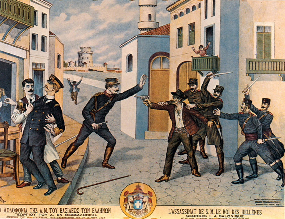 Greek lithograph depicting the assassination of King George I of Greece at Thessaloniki on 5/18 March 1913